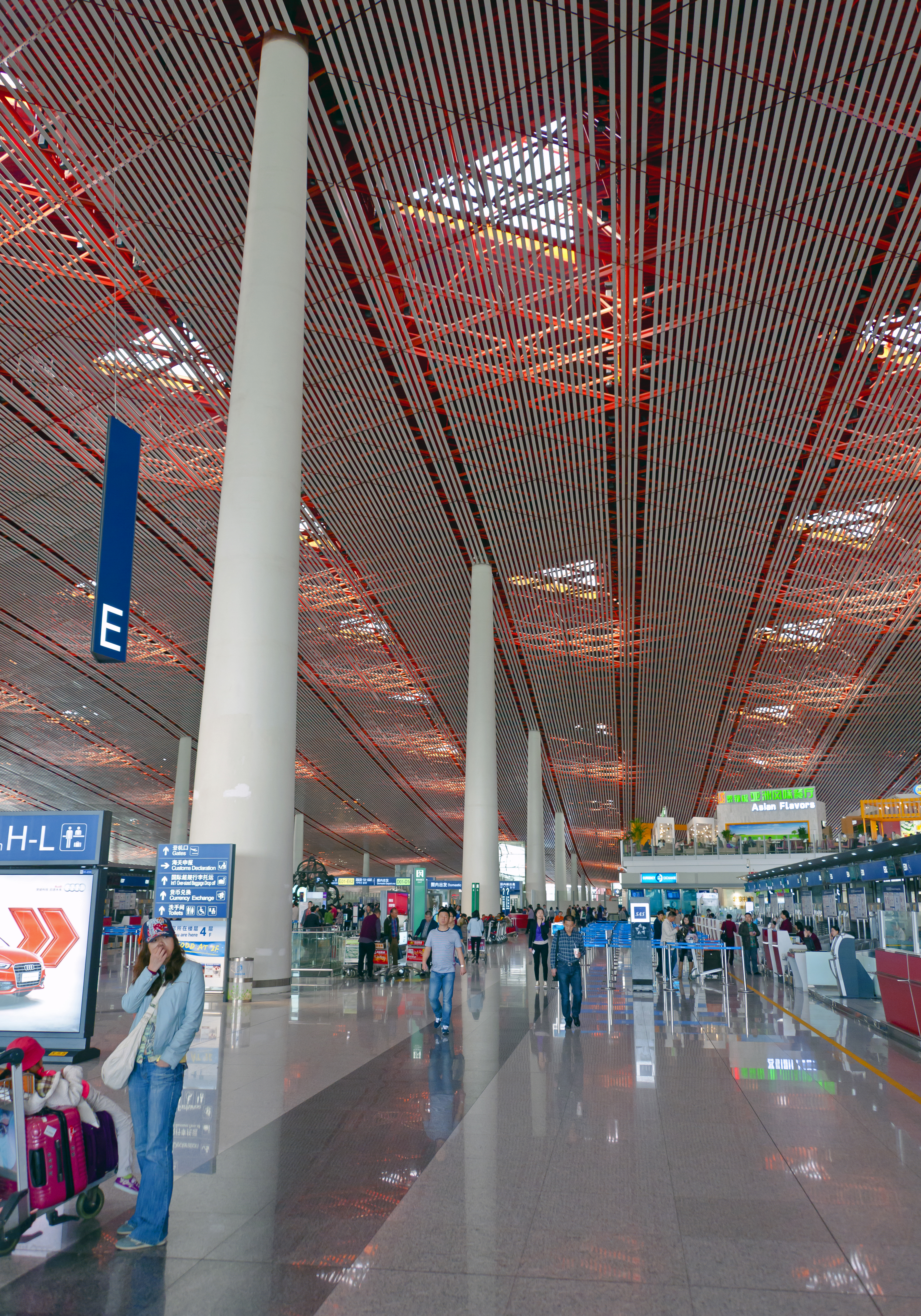 Looking along one of the long vistas in Beijing Capital International Airport Terminal 3